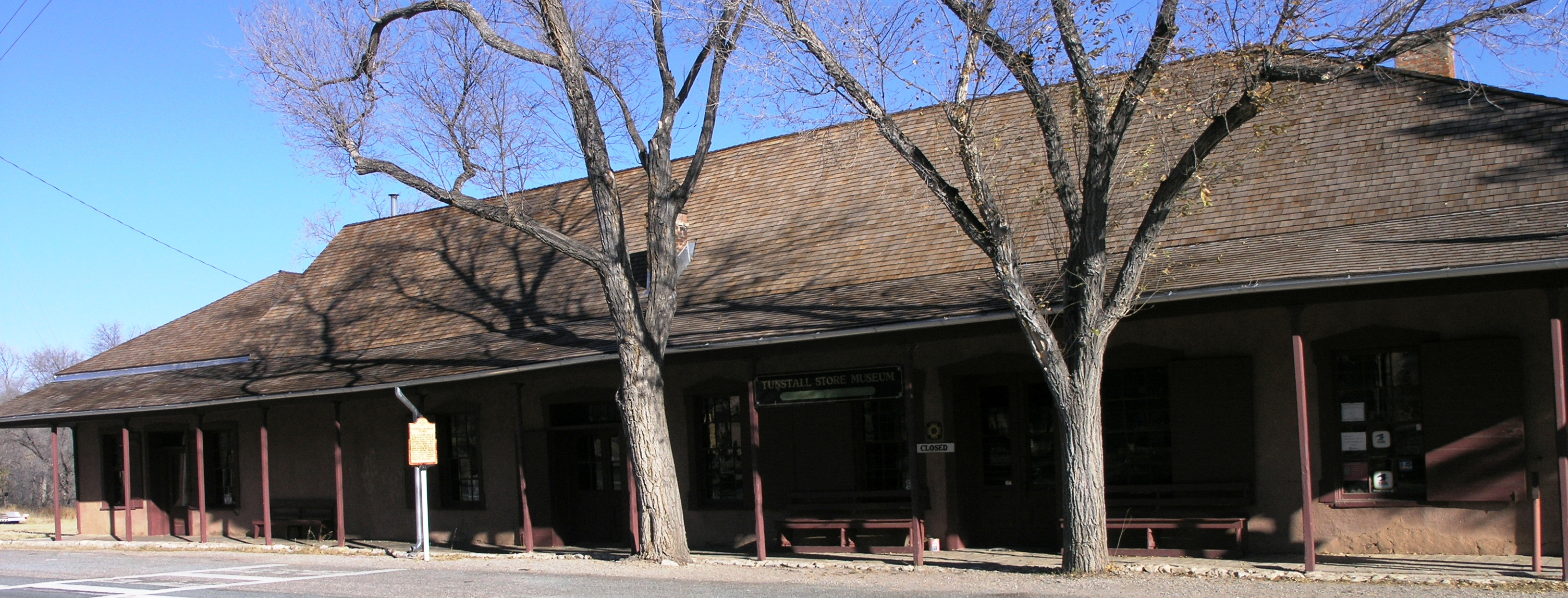 Lincoln, New Mexico